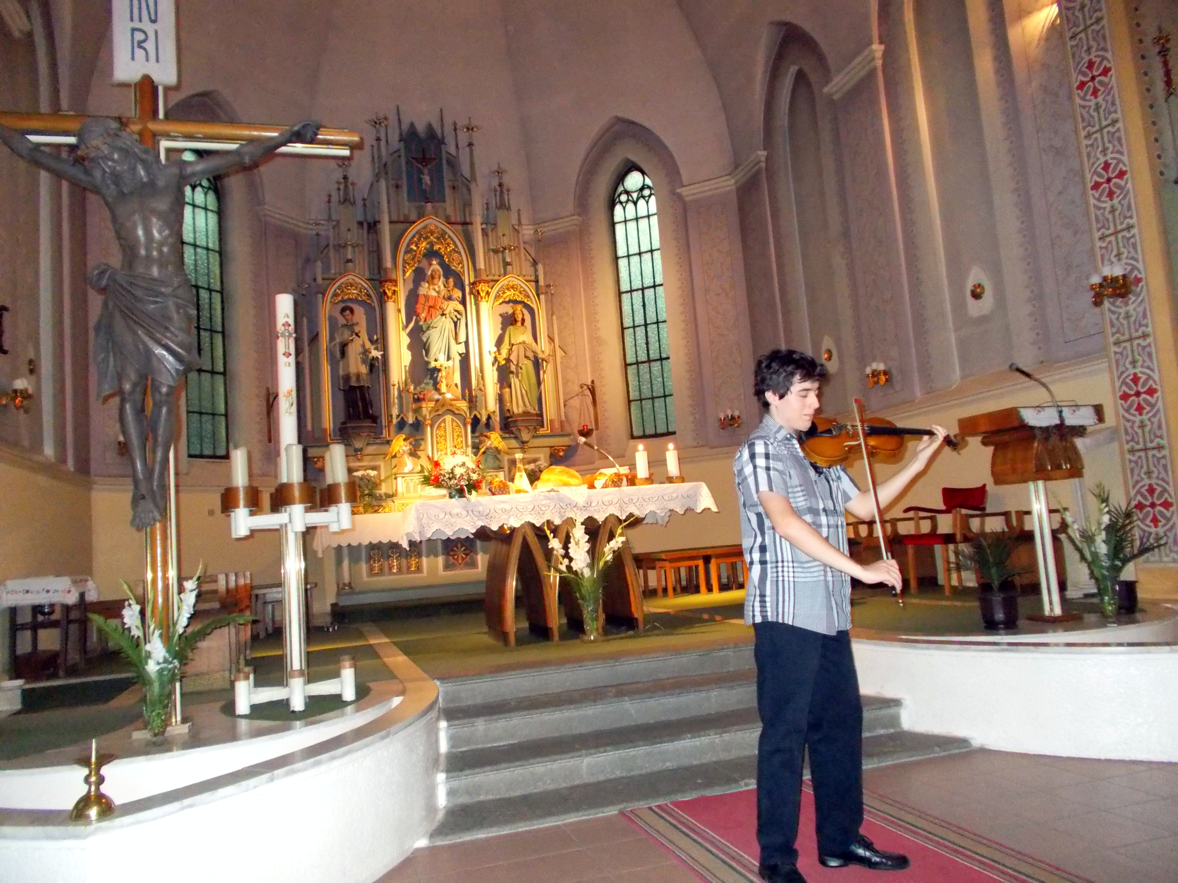 Rac Roberto in church of Mužlja on holiday of Saint Stephen with violine